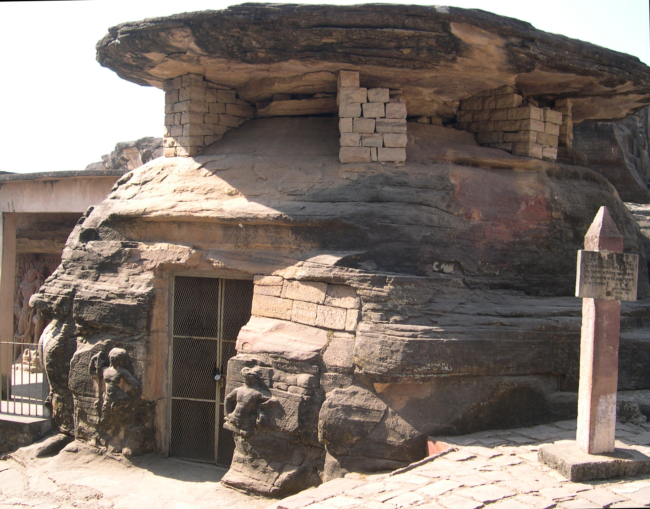 Udayagiri, Cave 8, exterior from the north east.